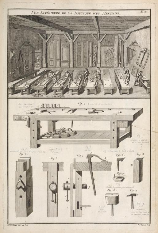 Workbench designed and published by André Jacob Roubo circa 1769 to 1774. The image is from André Jacob Roubo's multi-volume work, L'Art du Menuisier (The Art of the Joiner), published between 1769 and 1774 by the Académie des Sciences.